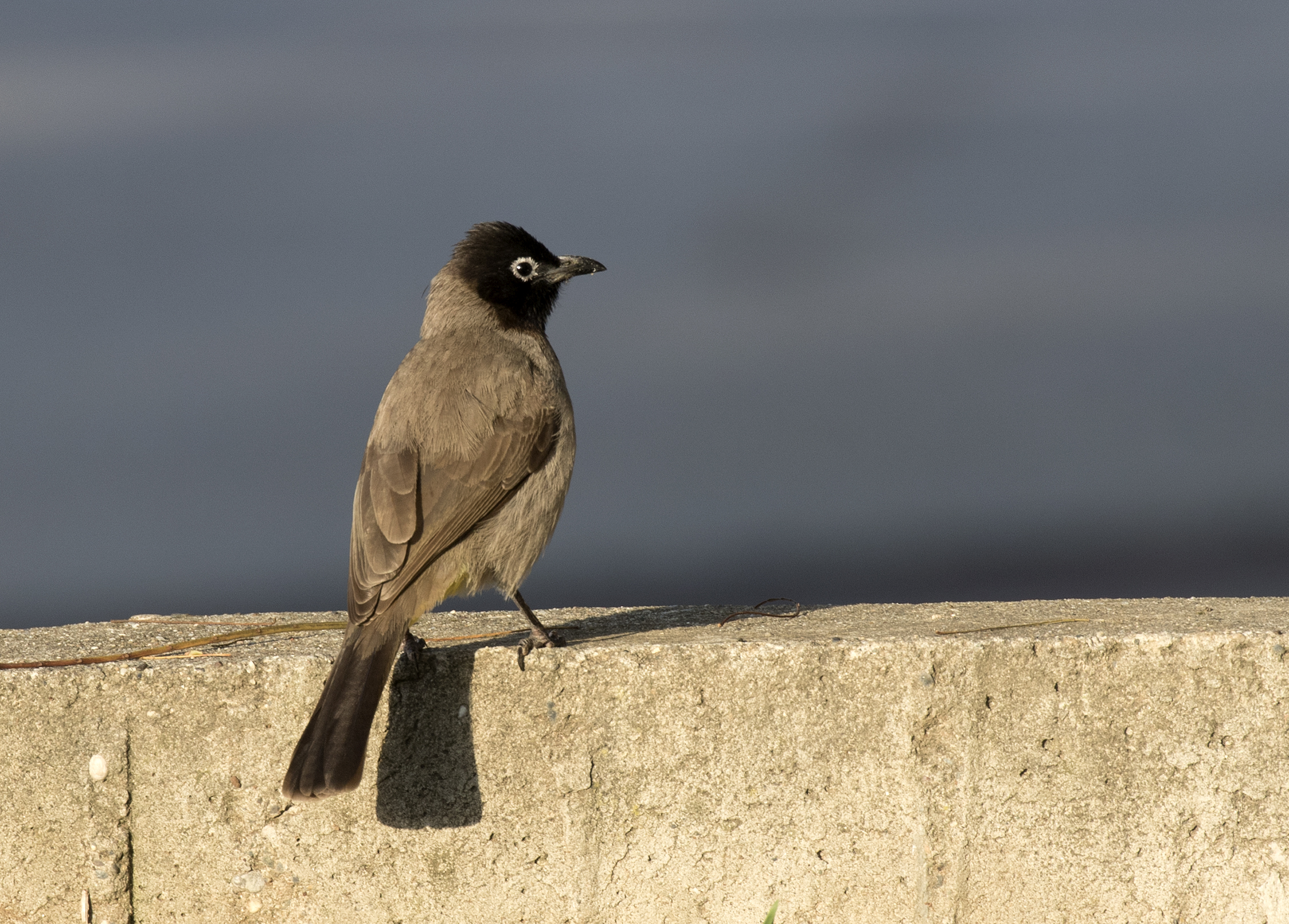 A White-spectacled Bulbul (Pycnonotus xanthopygos). Balcalı, Adana - Turkey.